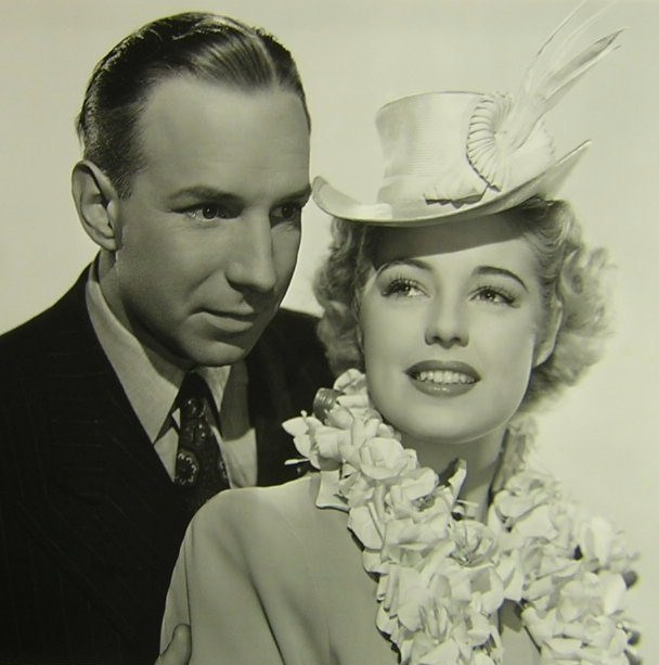 Lloyd Nolan and Mary Beth Hughes in Blue, White and Perfect, released in 1942 - publicity still, cropped (original image : see source)